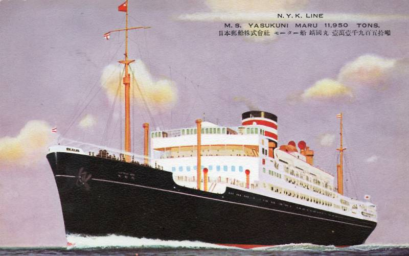 Postcard of the NYK Line ship Yasukuni Maru, 1930s